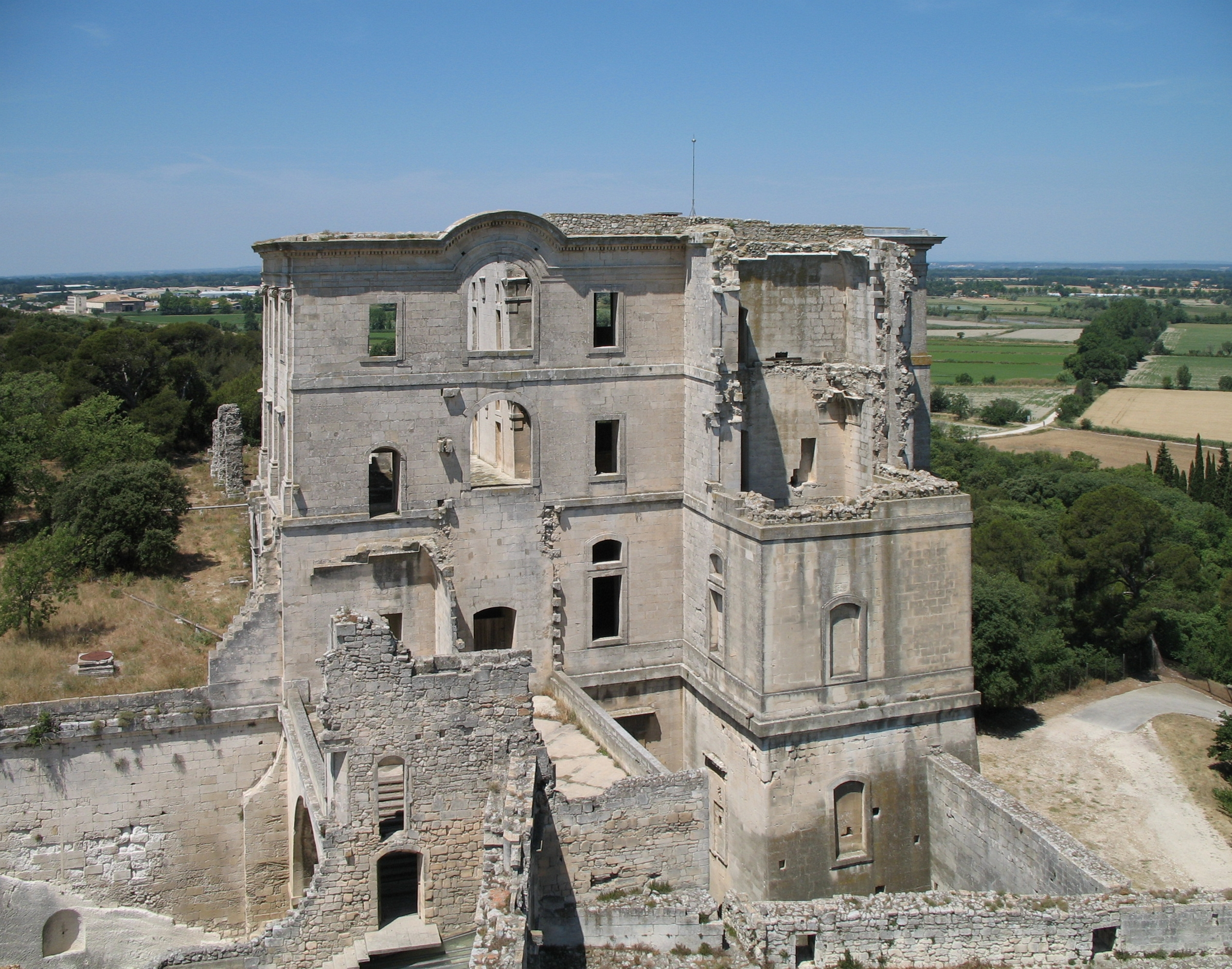 Montmajour Abbey near Arles (département des Bouches-du-Rhône, France): ruins of the Monastère Saint-Maur, 18th century